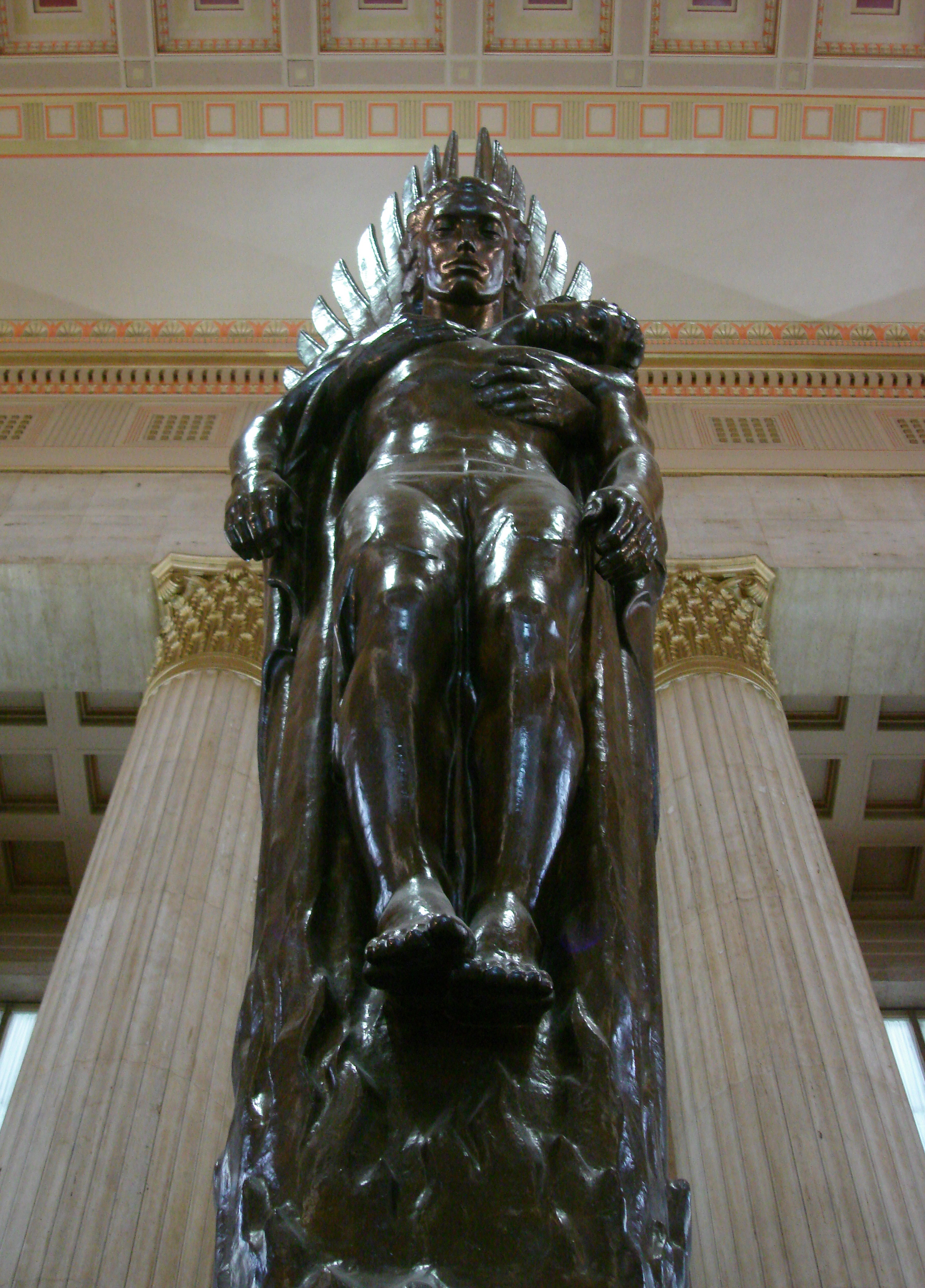 Detail of the sculpture "Angel of the Resurrection" located in the waiting room of 30th Street Station in Philadelphia, Pennsylvania. The statue is reminiscent of the fallen soldiers of the Pennsylvania Railroad (PRR) of World War II.Its base bears the following inscription:IN MEMORY OF THE MEN AND WOMEN OF THE PENNSYLVANIA RAILROAD WHO LAID DOWN THEIR LIVES FOR OUR COUNTRY 1941 – 1945